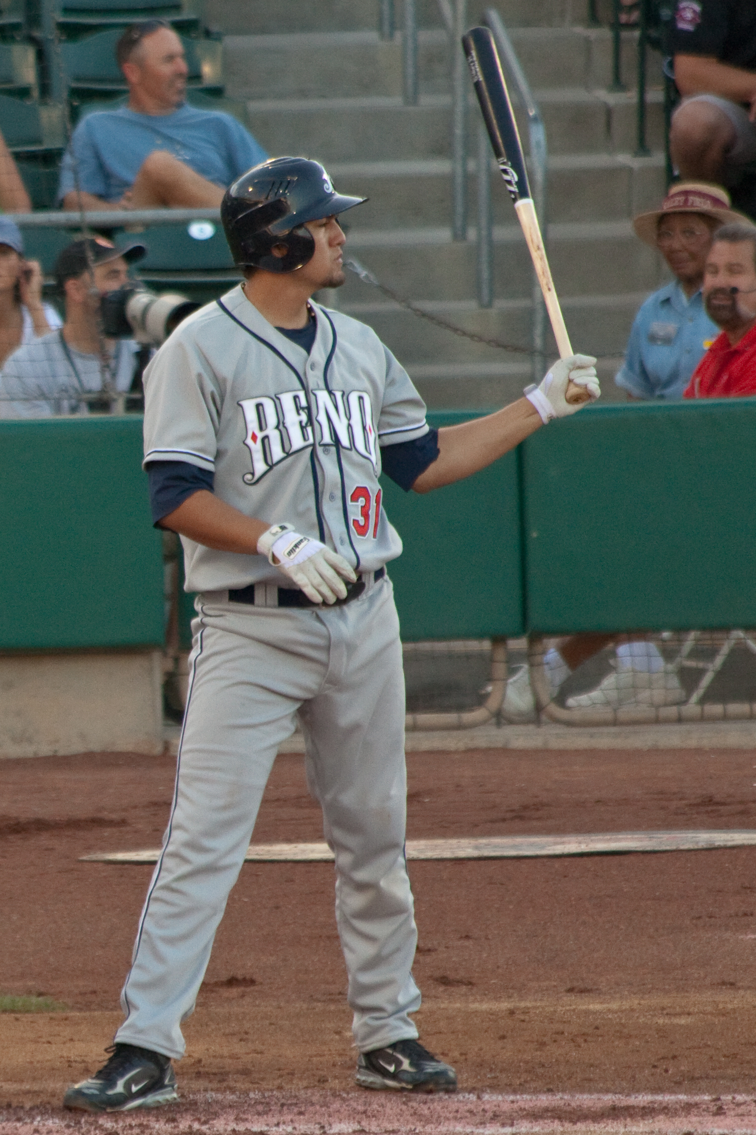 Agustin Murillo of the Reno Aces at bat in Raley Field.